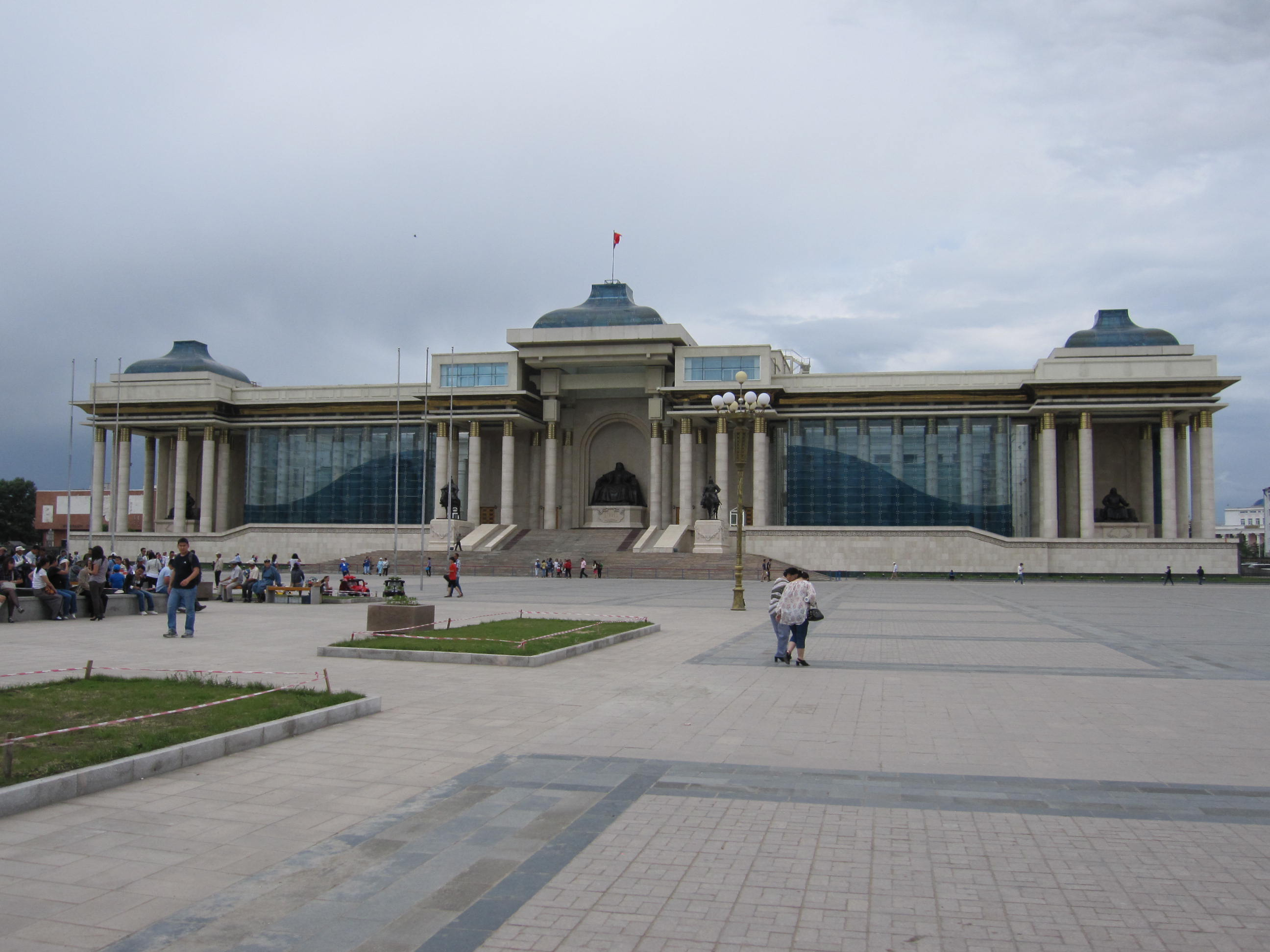 Mongolian Government Palace in Ulaanbaatar